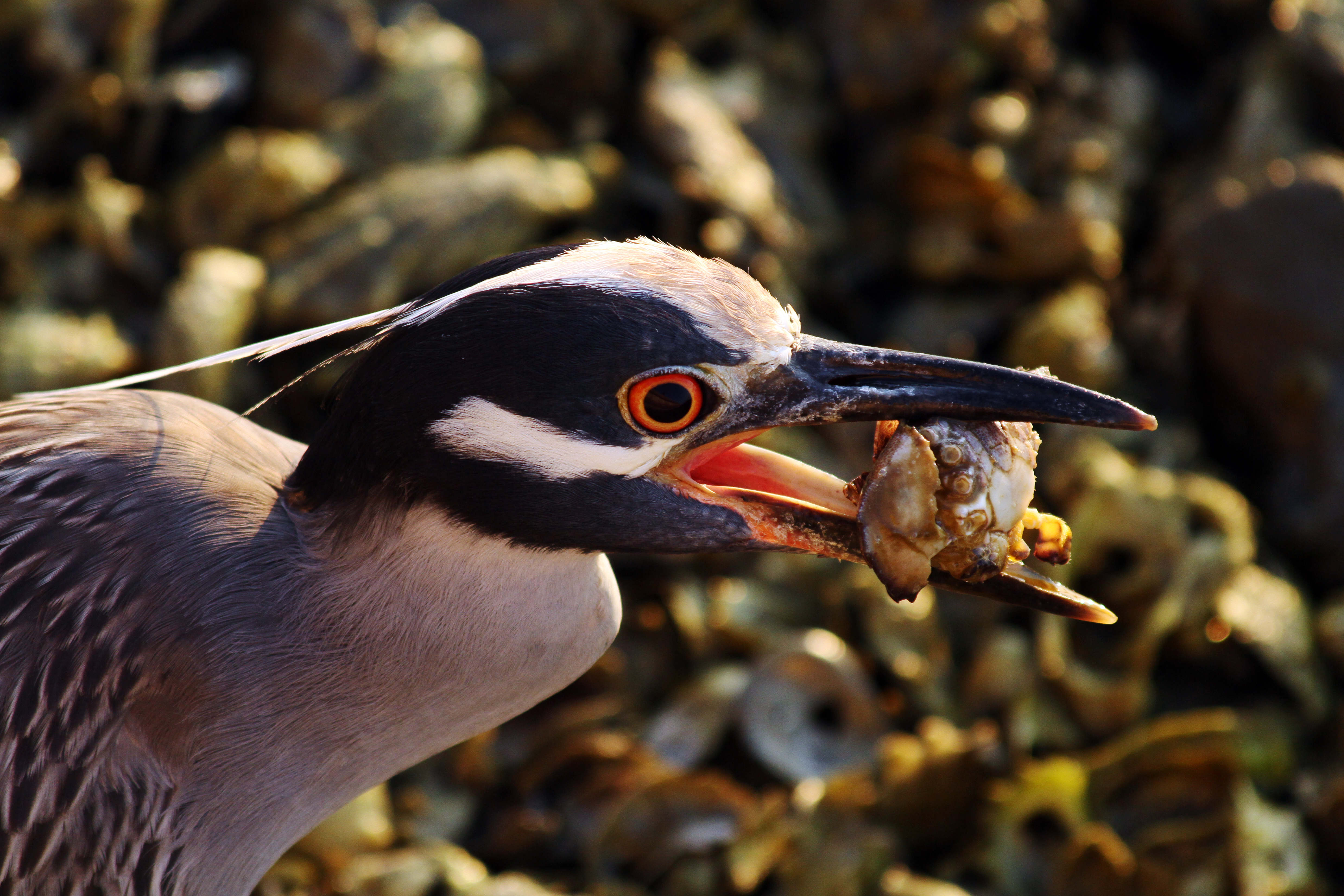 A Yellow-crowned Night Heron with food at Davis Island, Tampa, Florida, USA.